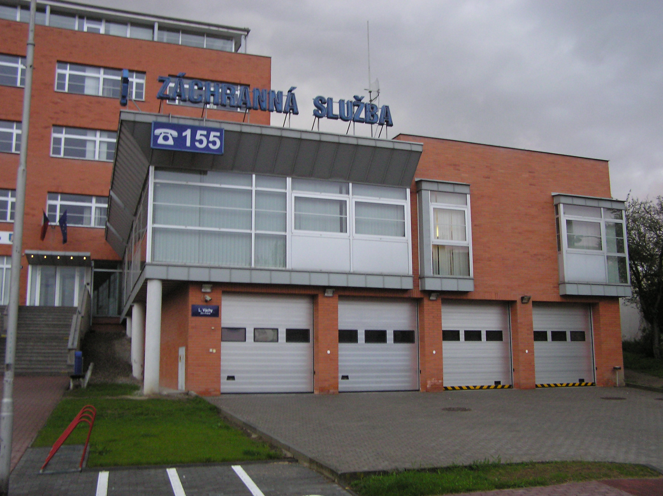 Ambulance station of the Emeregency Medical Service of Zlín Region in Zlín, Zlín Region, Czech Republic